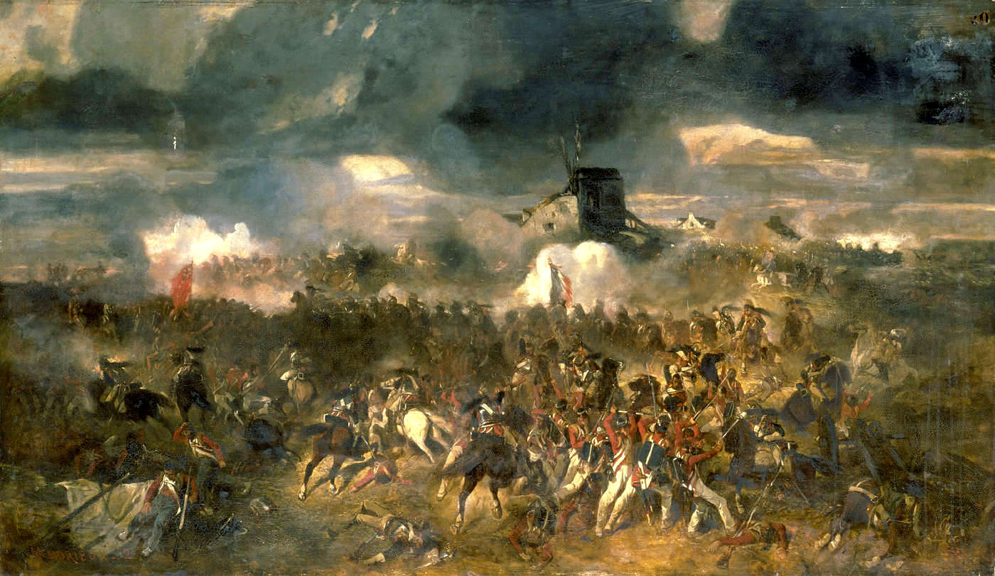 Oil painting "Battle of Waterloo. 18th of June 1815"